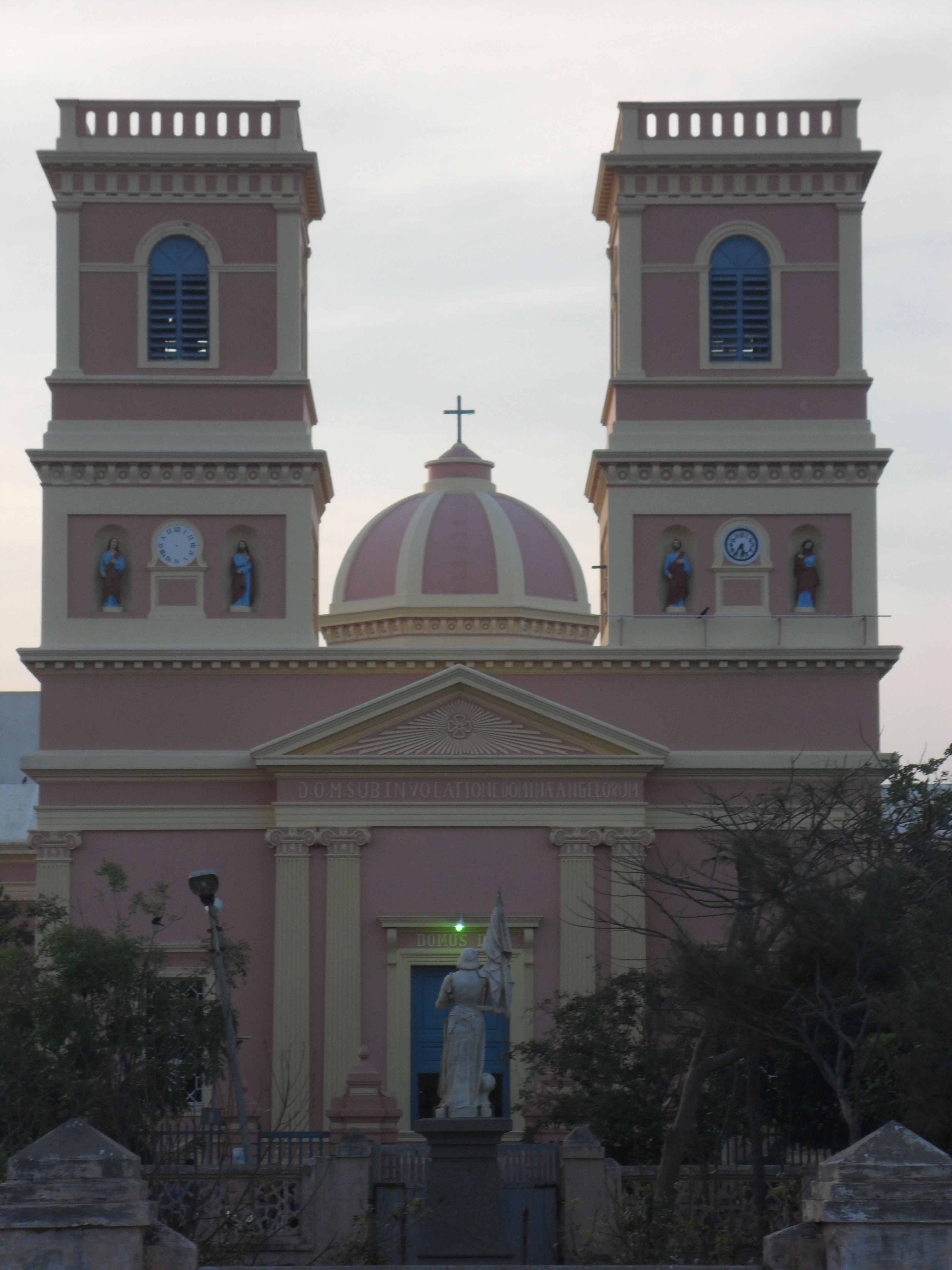 Our Lady of Angels Church, Puducherry; Inscribed above the entrance are the words: "(Dedicated) to the best and greatest God under invocation of the Lady of Angels." and "House of God."